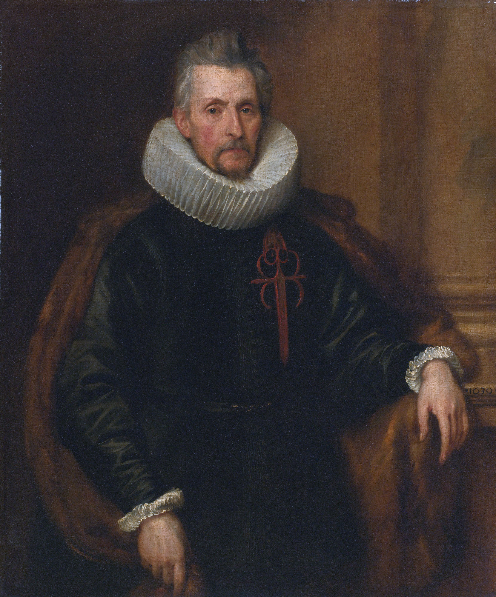 Ferdinand de Boischott (1571-1649), Baron Zaventem